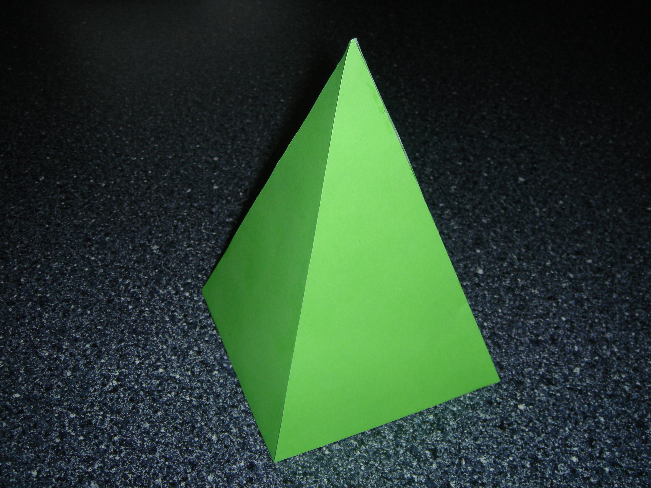 Paper model of a quadrilateral pyramid with maximum volume. Base length: 10 cm, height: 10 x square root 2 (14.14 cm). Model built and shot by author.